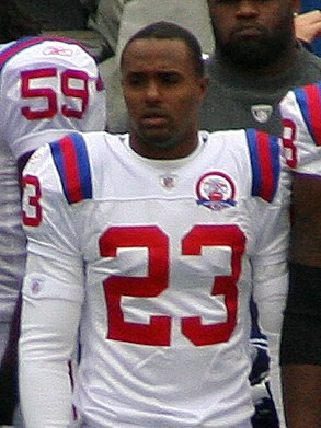 Leigh Bodden, a player on the New England Patriots American football team.